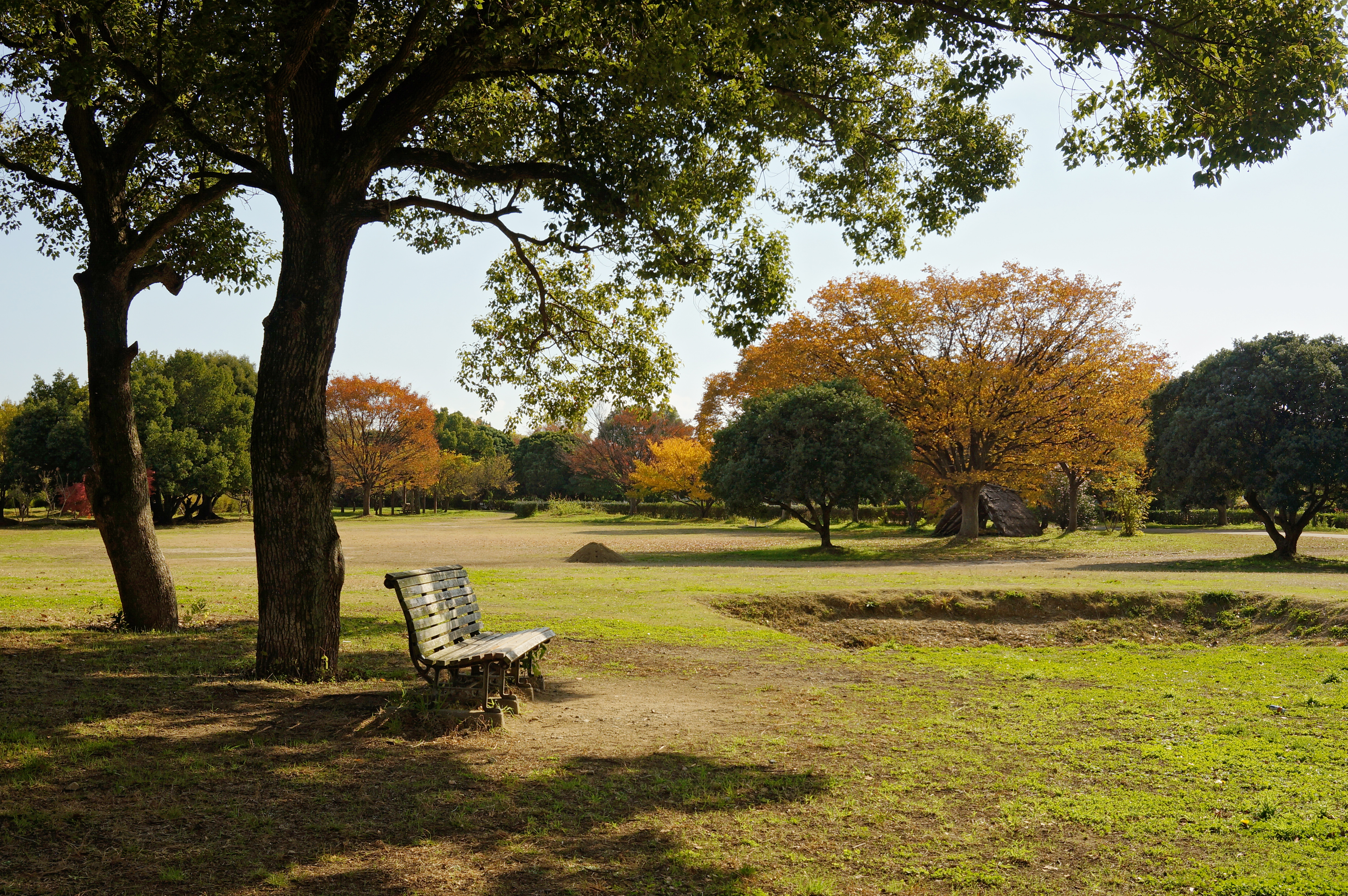 At Onaka Ruins in Harima, Hyogo prefecture, Japan.